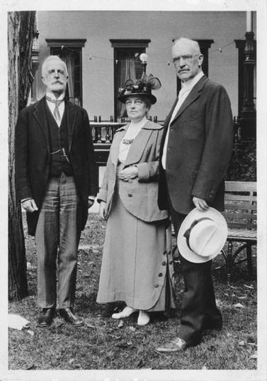 From left to right: R. R. Bowker, Mrs. Dewey and Melvil Dewey